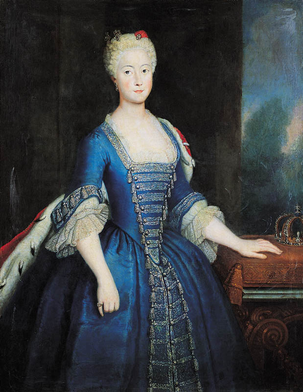 Princess Sophia Dorothea of Prussia (1719-1765), margravine of Brandenburg-Schwedt